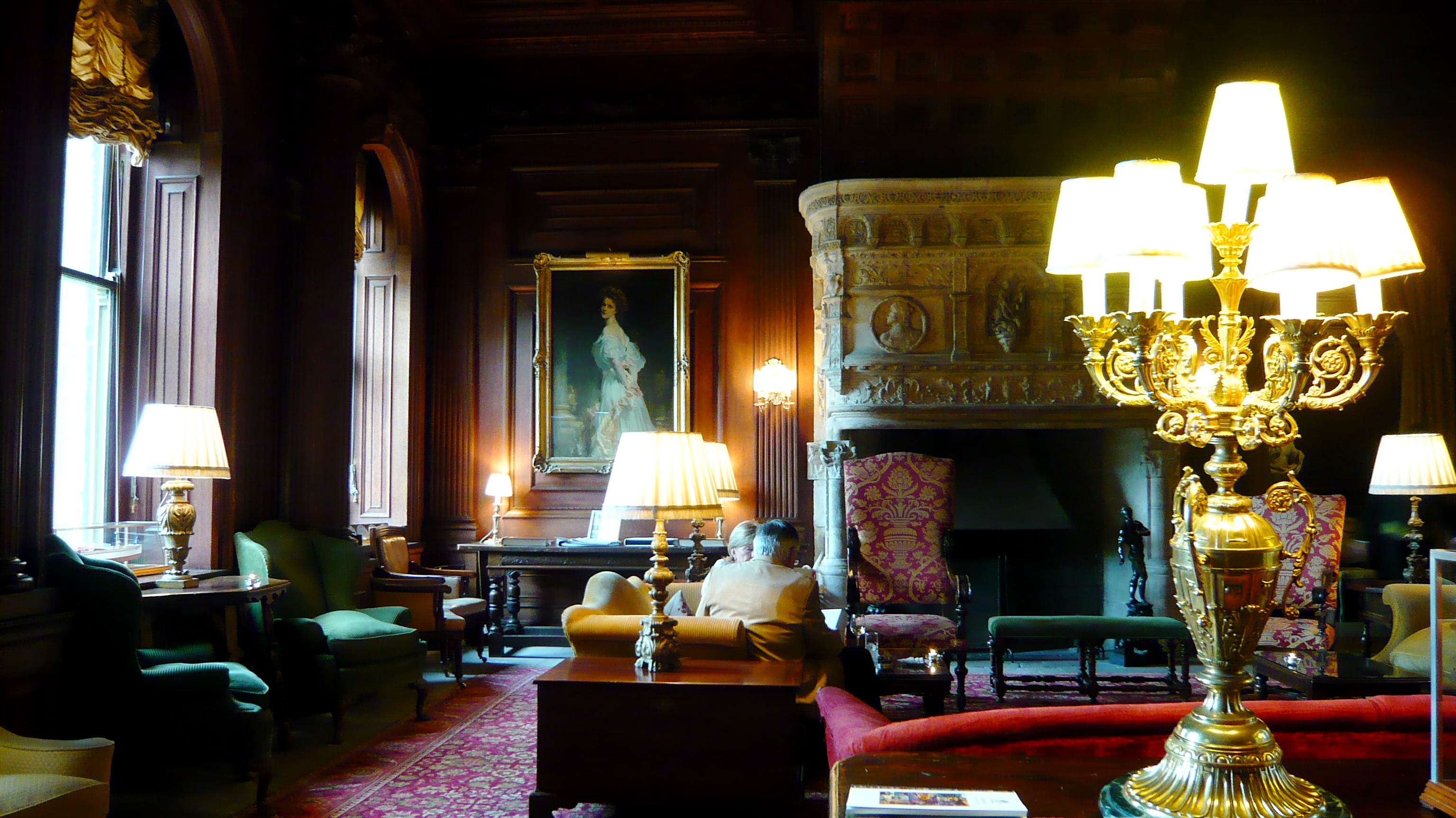 The Hall